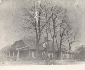 Photo of Milvyday estate in Lithuania. Author unknown, circa 1900.